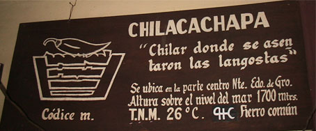 logo de chila